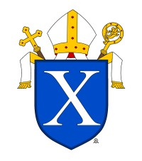 Coat of arms of Banská Bystrica diocese